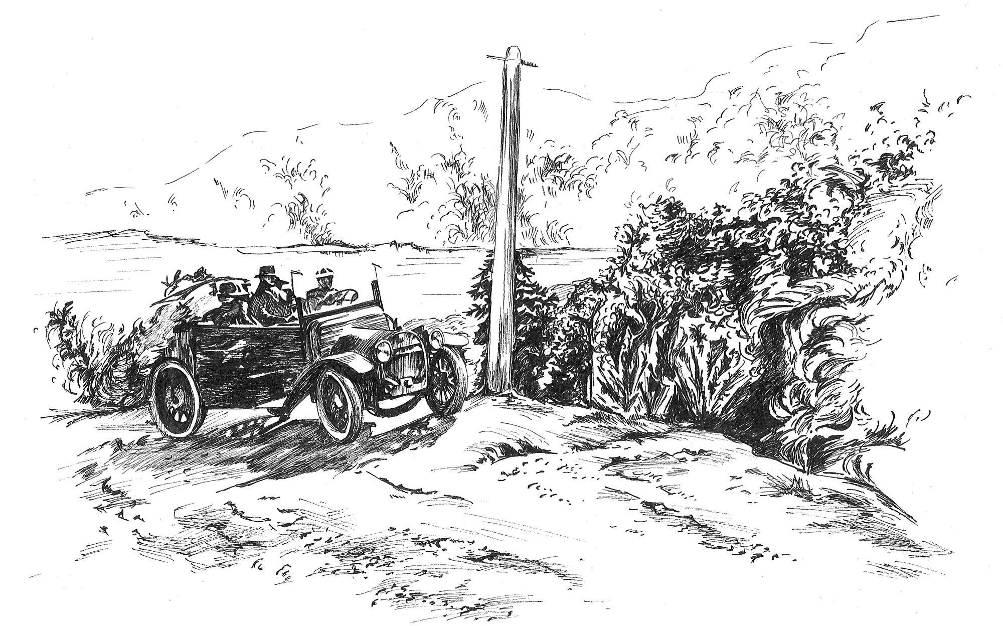 "Motoring in the Hot Lakes Region of New Zealand Through Bush Country near Lake Rotoma" Ink drawing by Nicola Spijkerbosch. Drawn from a photograph which appeared in the Weekly News on May 9th, 1918